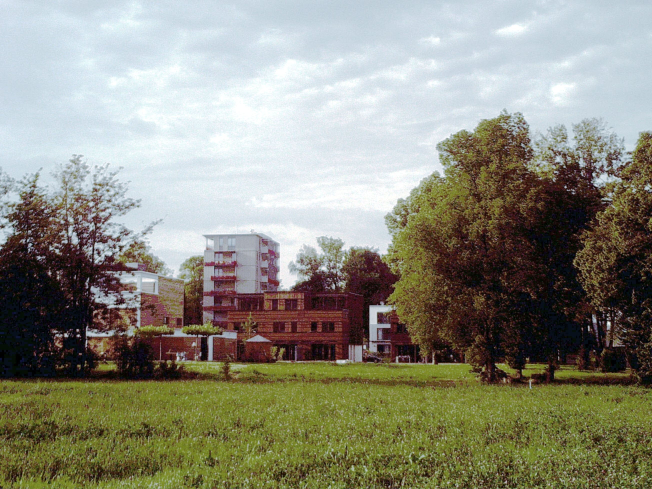 Wooden buildings at the Mietraching zero energy city